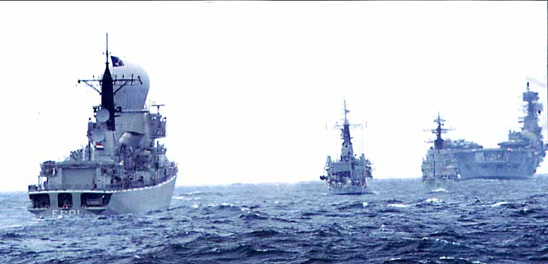 HMS Ark Royal and her group leaving New York, July 1976. The closest is the Dutch frigate Tromp (F801) The Ark Royal R09 never went to New York in 1976, I know because I served on board on her. In January 1976 she was in Devonport England, and from February the 5th 1976 through to 16th July 1976 she was at sea and called ino the following ports: Roosevelt Roads, Mayport Fla, Norfolk, Fort Lauderdale, all on the East Coast of the United States she did not go to or enter New York. 1976 was the year that the B.B.C made the series Sailor on Board H.M.S Ark Royal The Photo present here is possibly from 1977 when Her Majesty the Queen Reviewed the Fleet on her Silver Jubilee. Ark Royal never went to New York in 1976. I know because I was onboard throughout 1976. This photo is possibly from the Queens Silver Jubilee Review of the Fleet in 1977